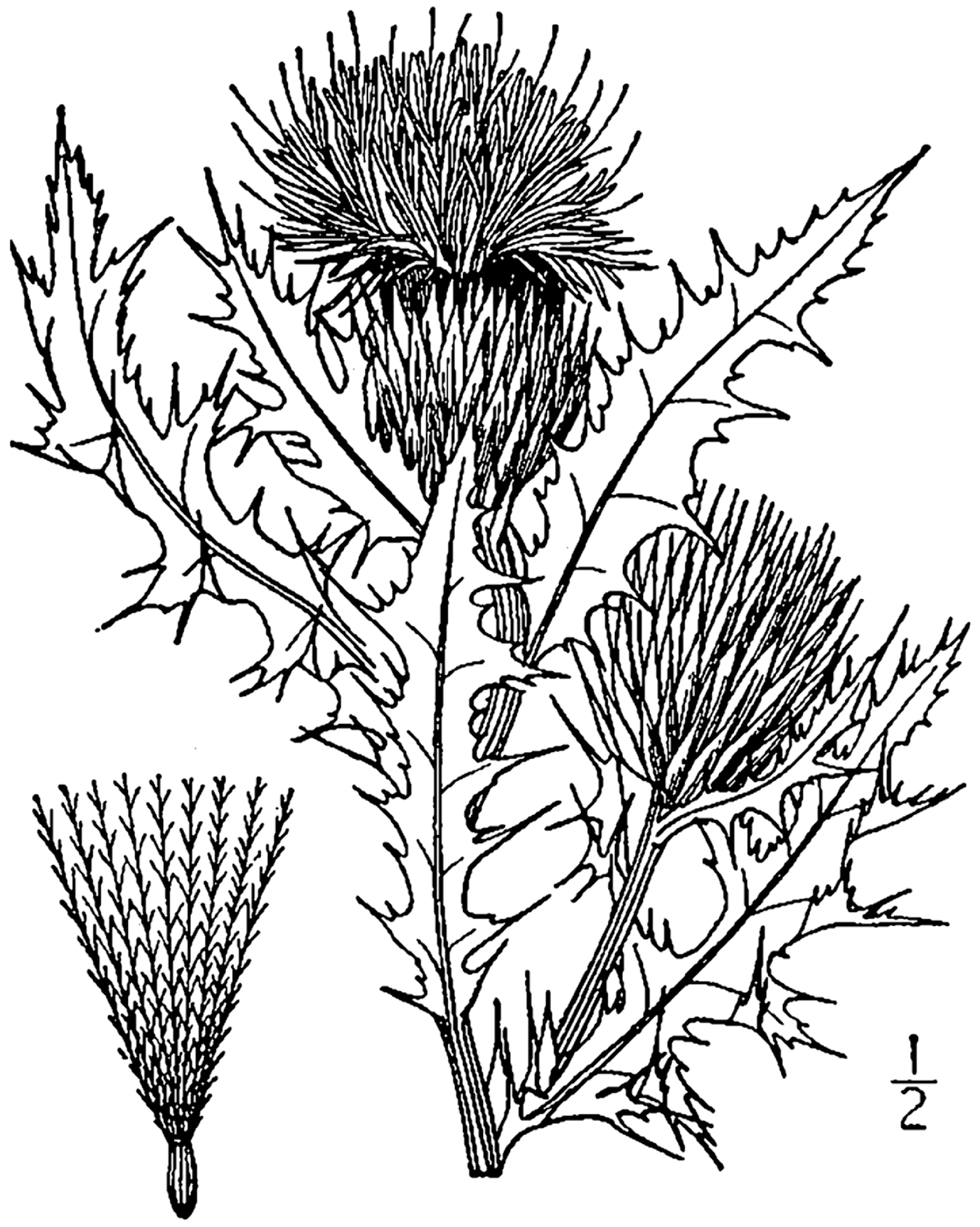 Cirsium pumilum Spreng. (pasture thistle)